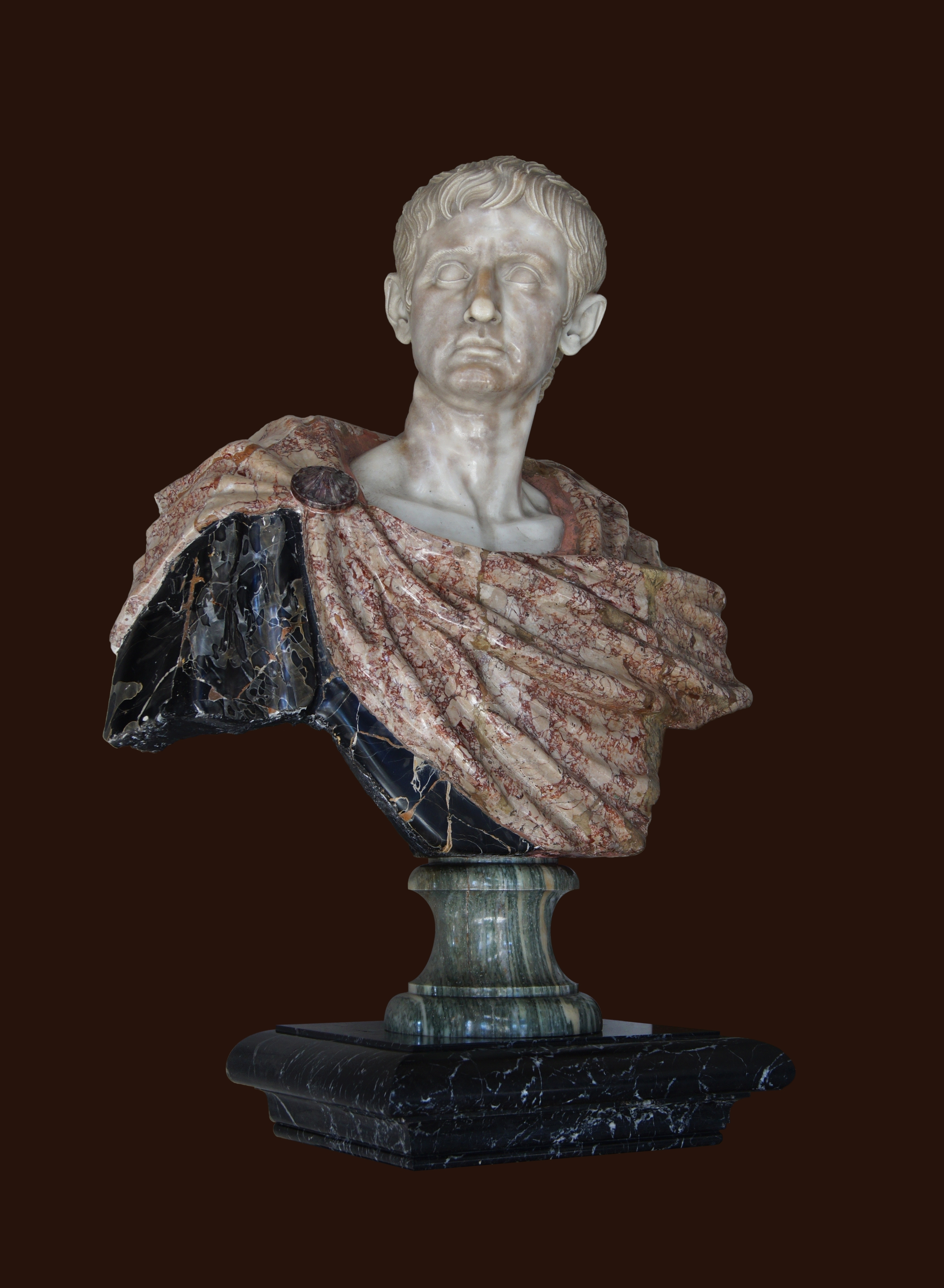 Marcus Ulpius Nerva Traianus. Roman Emperor Trajan (53-117). Florentine bust.